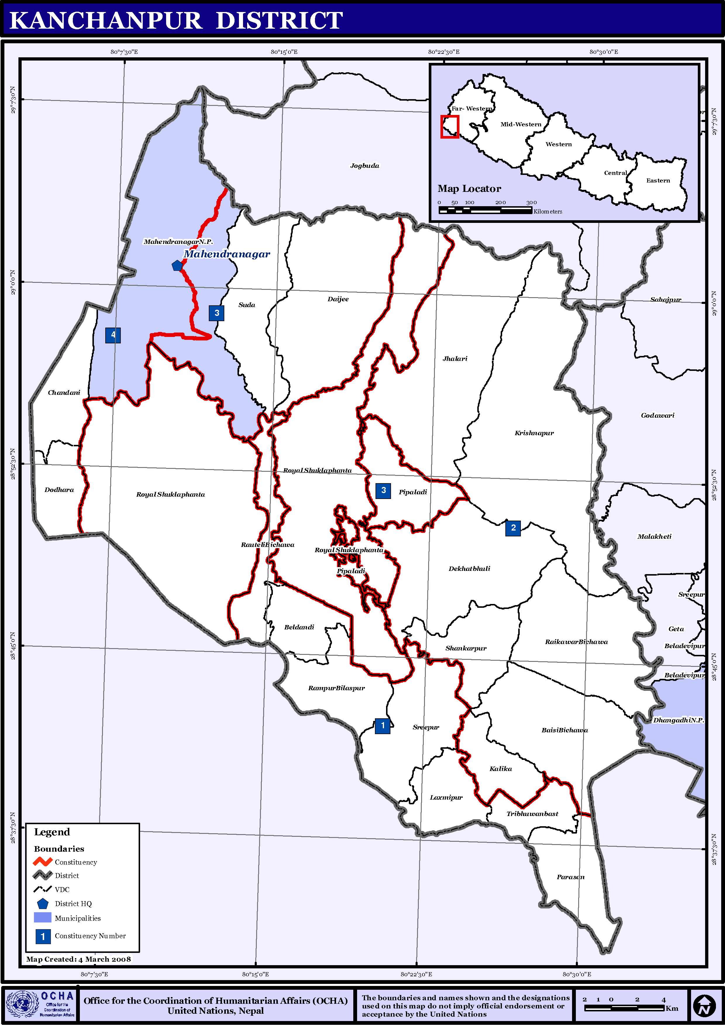 Map displaying Village Development Committees in Kanchanpur District, Nepal